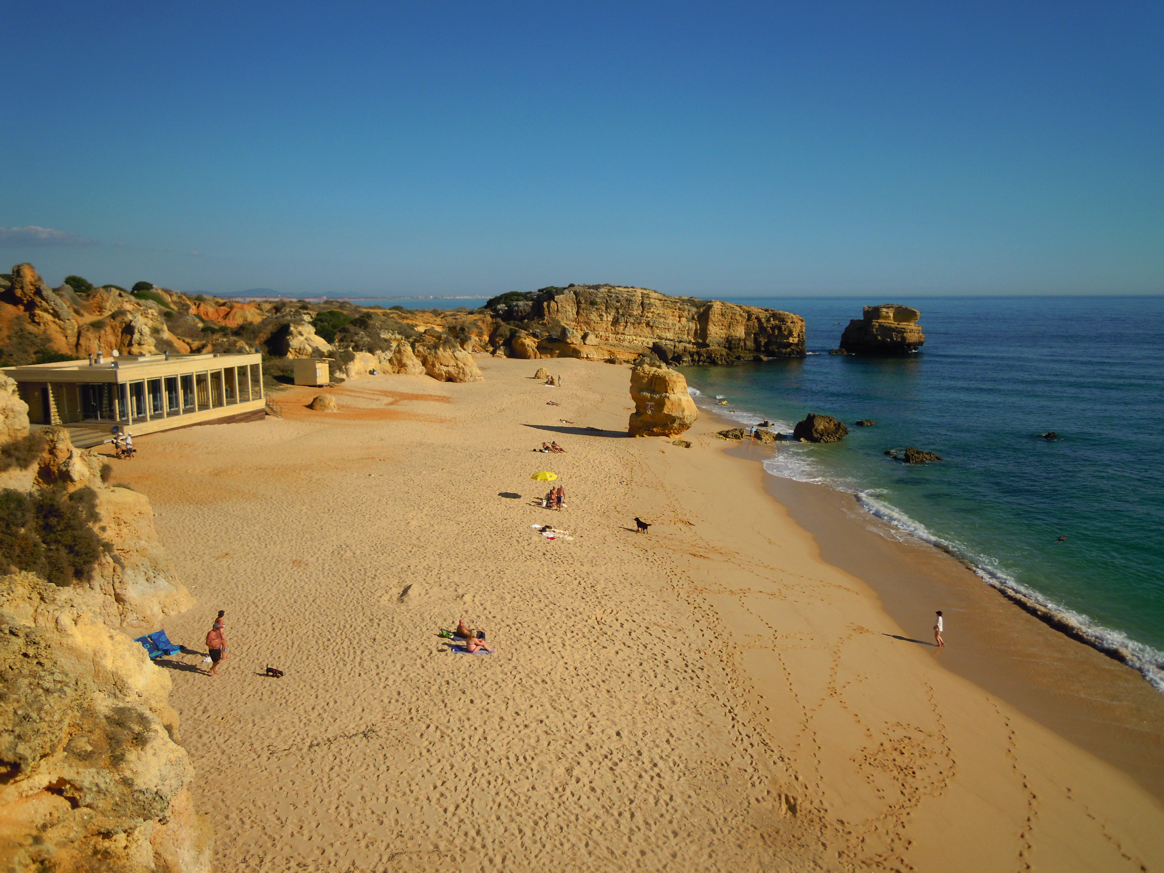 The view east from the cliff tops lookig along the coast across the sands on the Praia de São Rafael, Sesmarias village near Albufeira, Algarve, Portugal